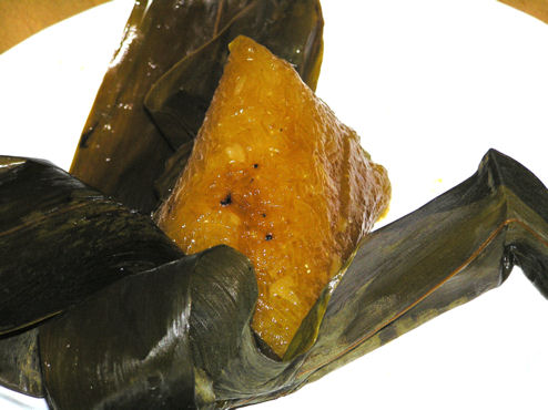 Yellow Zongzi